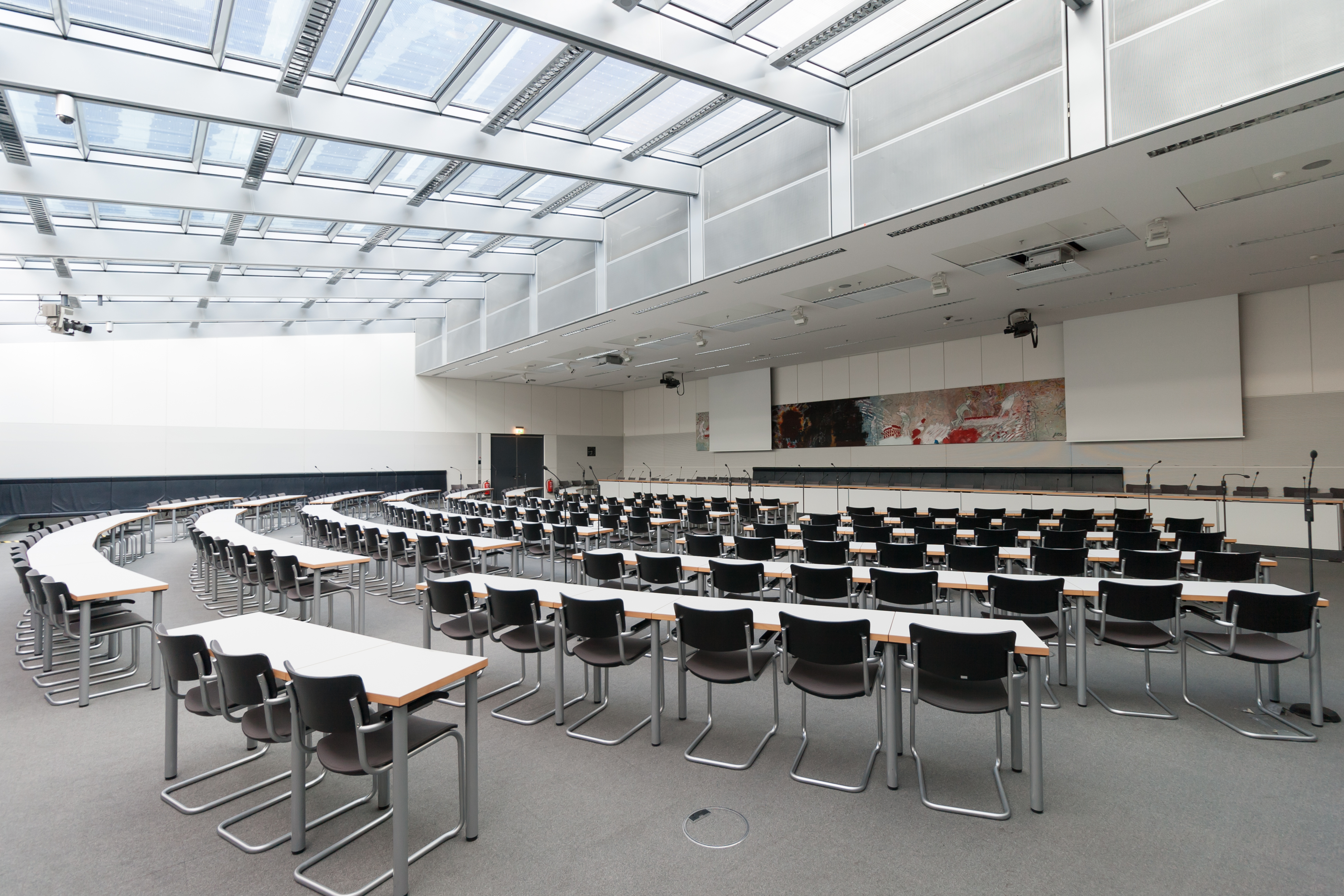 The Otto Wels Hall, meeting hall of the SPD fraction in the German Bundestag